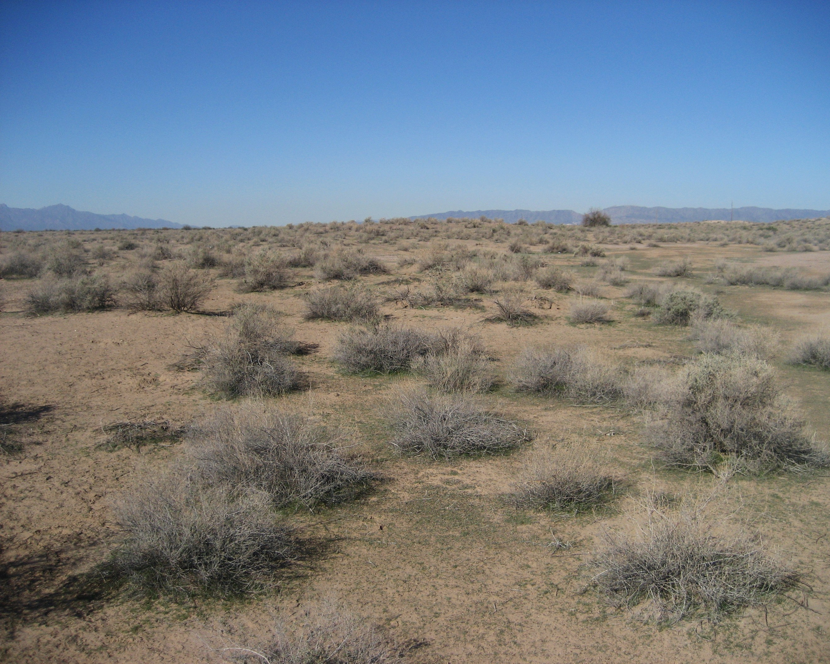 Hohokam Pima National Monument — a Hohokam cultural site, in Pinal County, Arizona. Currently closed to the public.